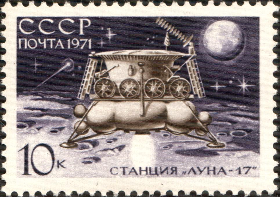 USSR stampː Luna 17 Module on Moon. Seriesː Soviet Luna 17 Spacecraft Carried Lunokhod 1 Rover to the Moon (1970.11.10-17)